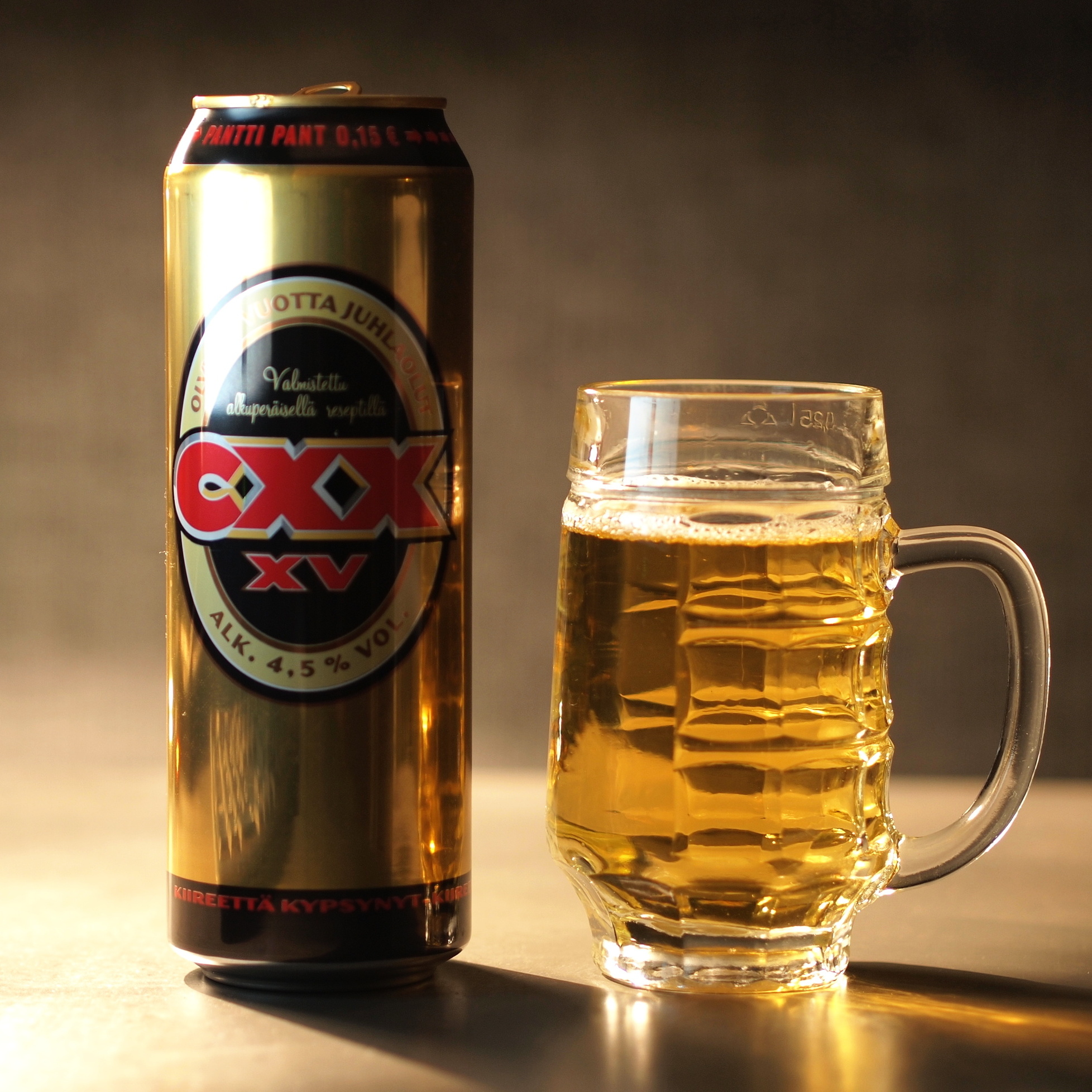 Olvi CXX XV lager beer poured into a glass.